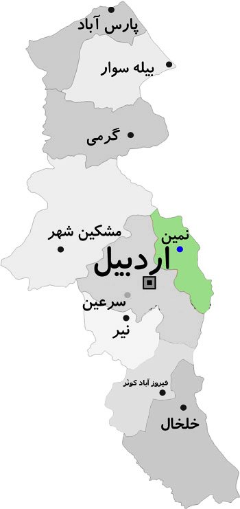 Namin county map